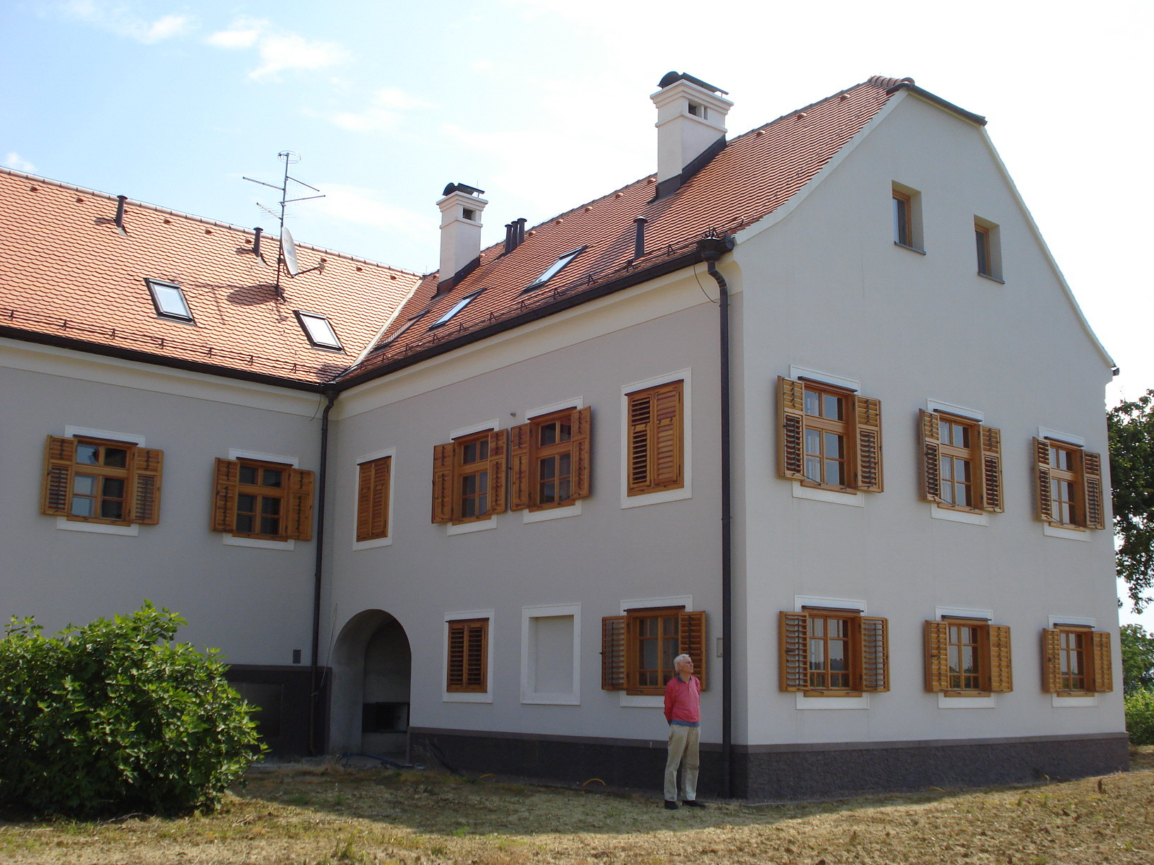 Banfi Castle in Štrigova - west wing